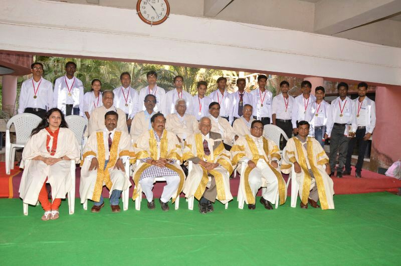 Seventeenth Convocation of Dr. Babasaheb Ambedkar Technological University, Lonere – Raigad